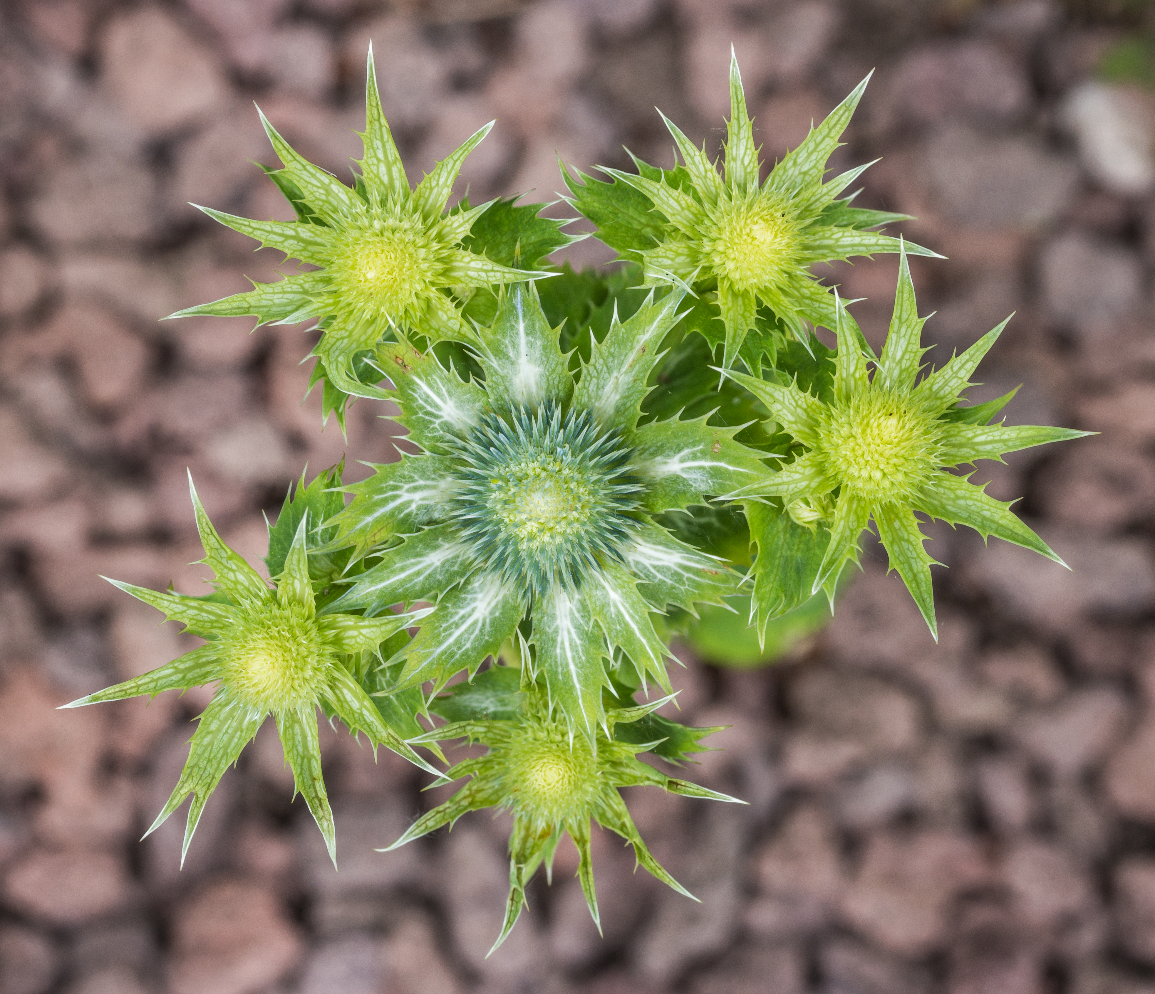 Flower buds in development of Eryngium giganteum 'Miss Willmott's Ghost'. Garden Sanctuary Jonker Valley, part of Garden Reserves in the Netherlands.